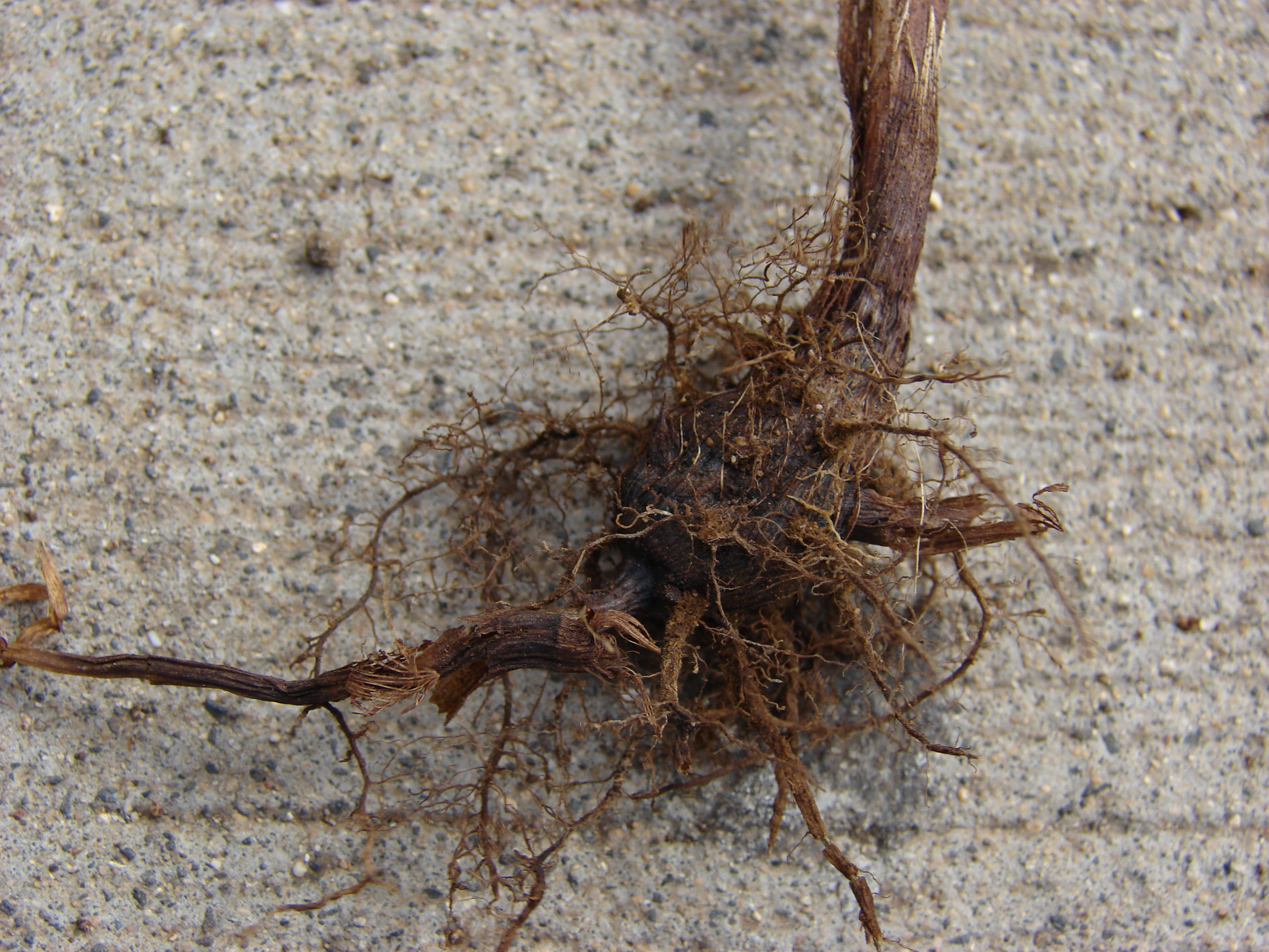 Cyperus rotundus (nut). Location: Maui, Kihei